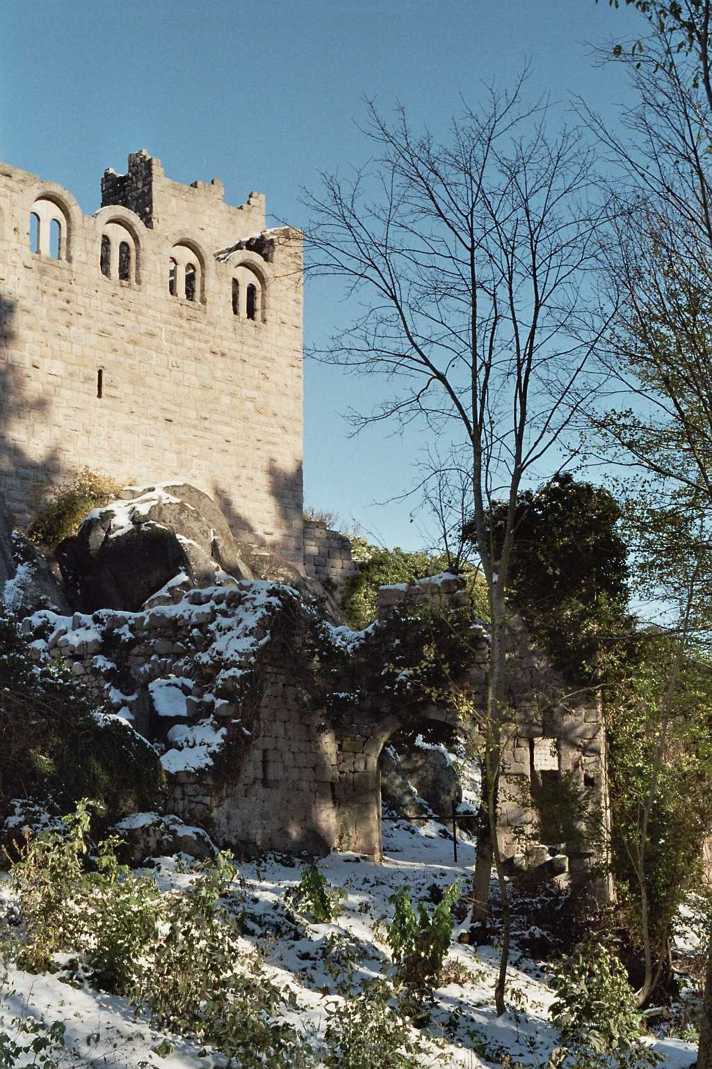 Castle of Bernstein, near Dambach-la-ville, France.